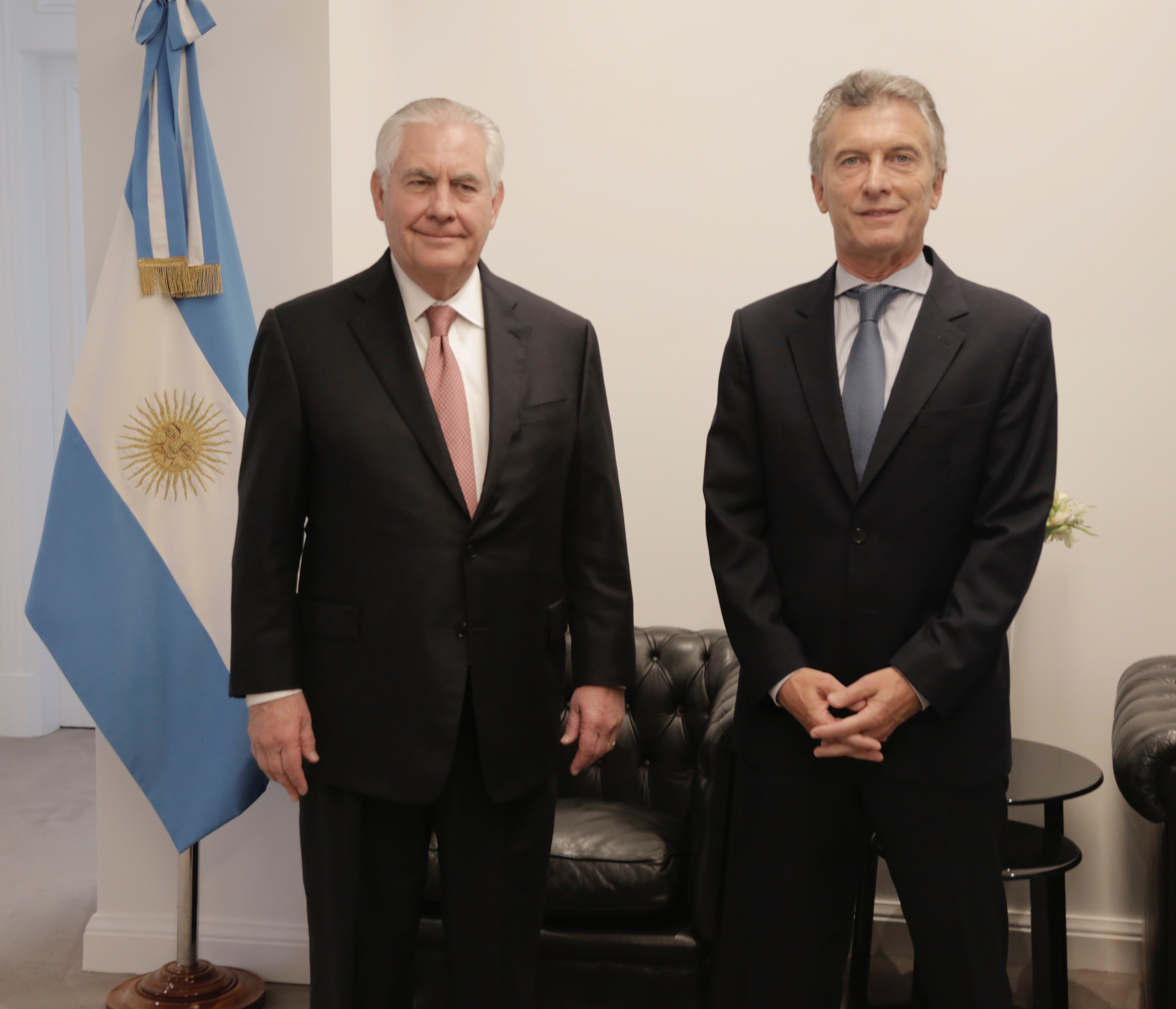 U.S. Secretary of State Rex Tillerson poses for a photo with Argentine President Maurici Macri at Quinta Presidencial de Olivos in Buenos Aires, Argentina, on February 5, 2018. [State Department photo/ Public Domain]